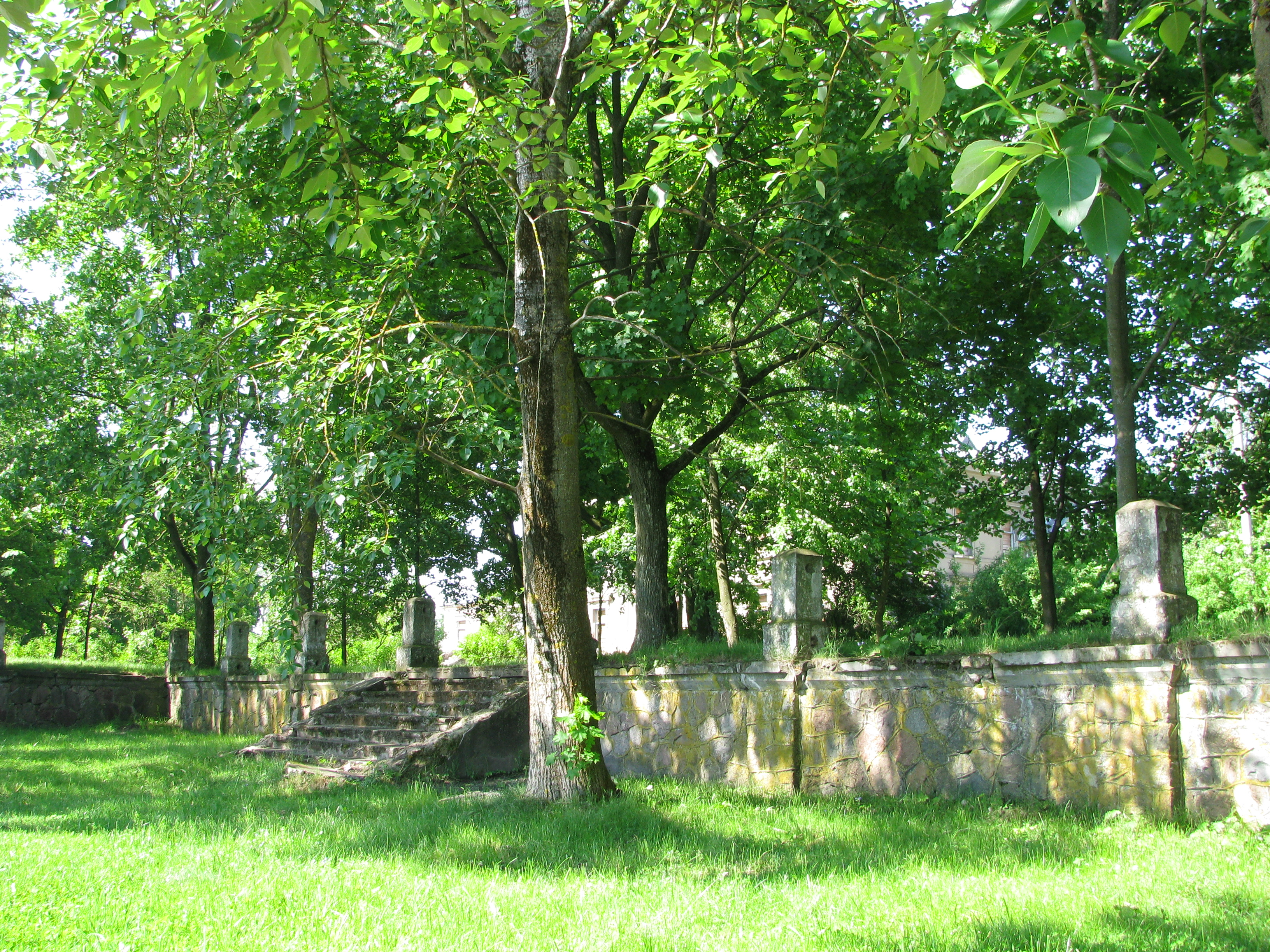 Беларуская (тарашкевіца): Будынак былога палаца. в. Паланэчка This is a photo of Belarusian heritage monument. Reference number: 113Г000061 ( WLM)